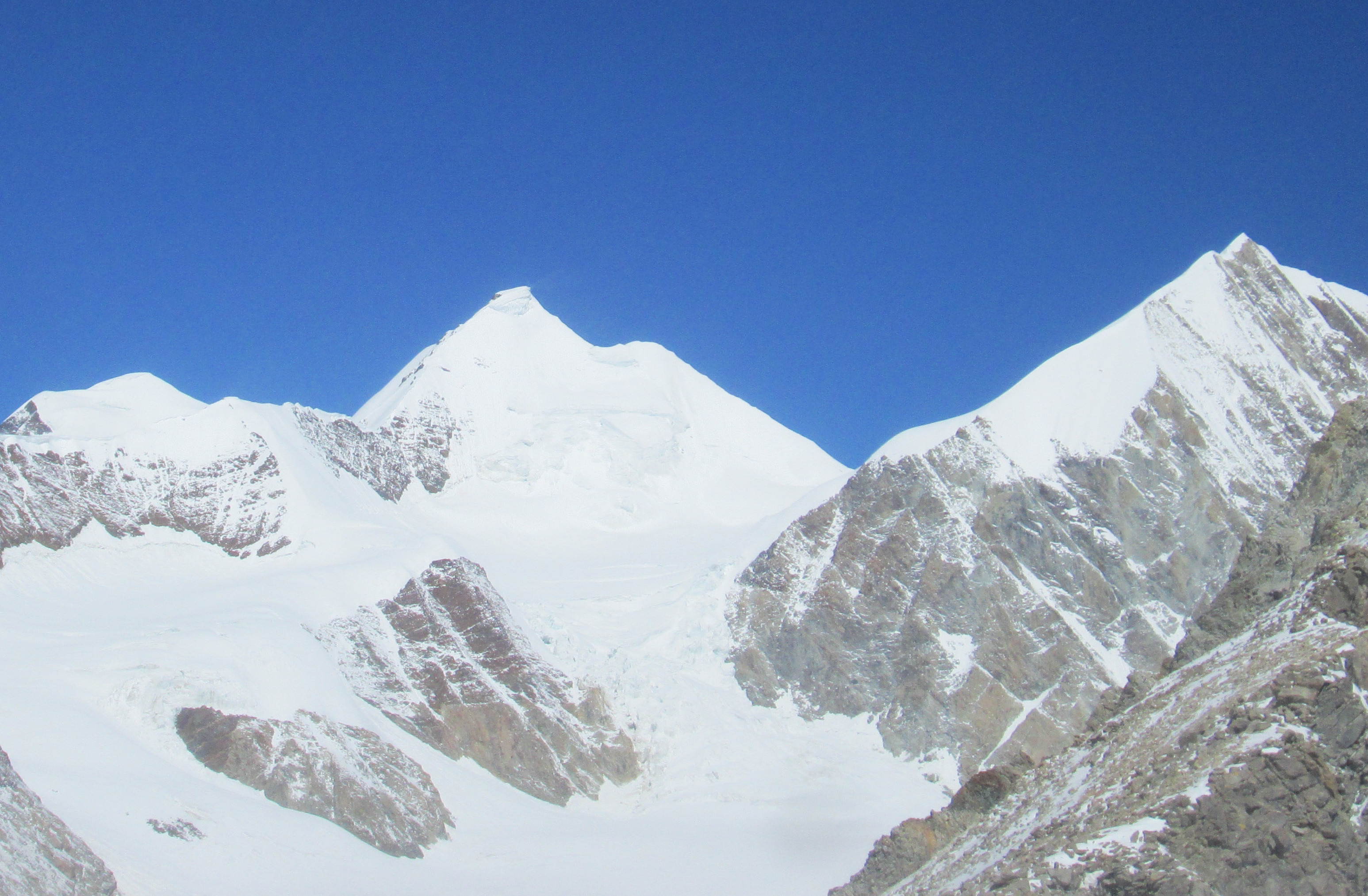 This picture was taken during the Kalindi khal trek.SriKailash from Kalindi Khal